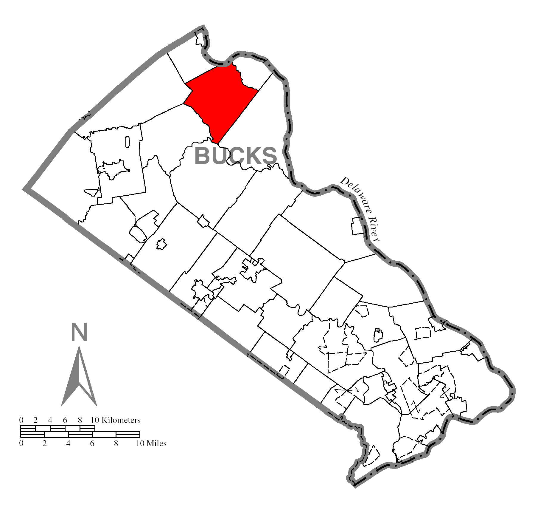 A map of Bucks County showing Nockamixon Township, Pennsylvania (alternate) highlighted on the map.